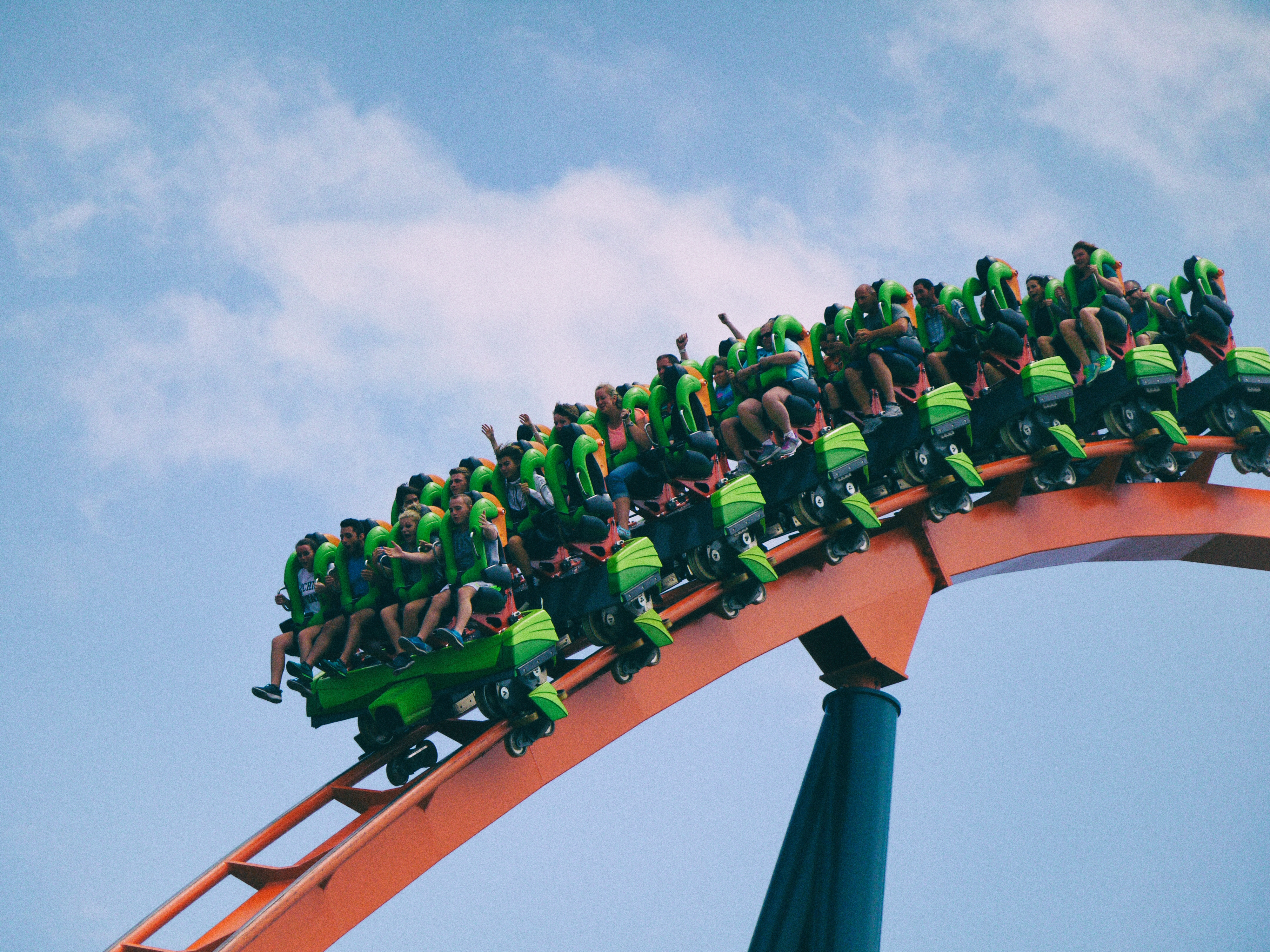 Rougarou at Cedar Point